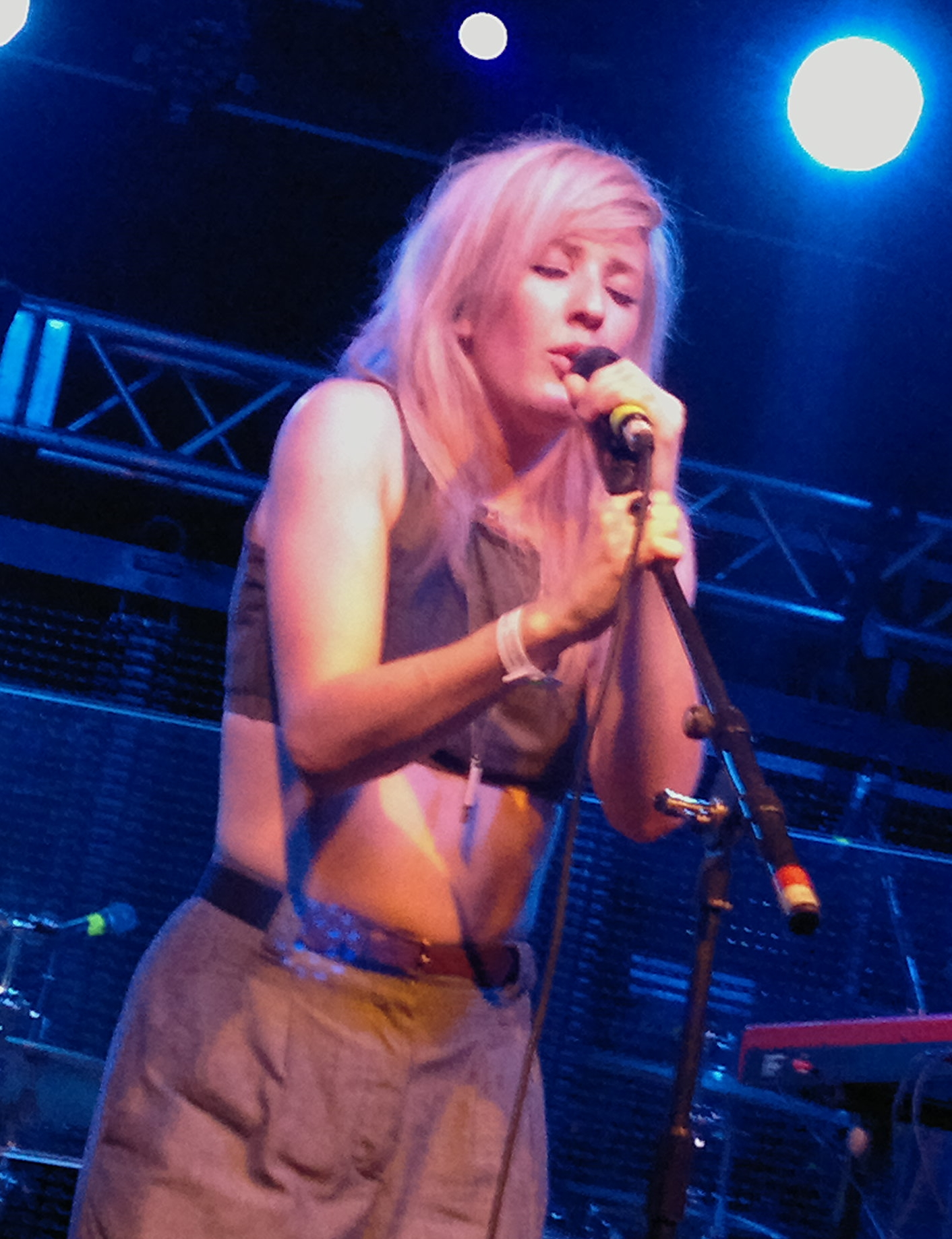 Ellie Goulding live September 14, 2010